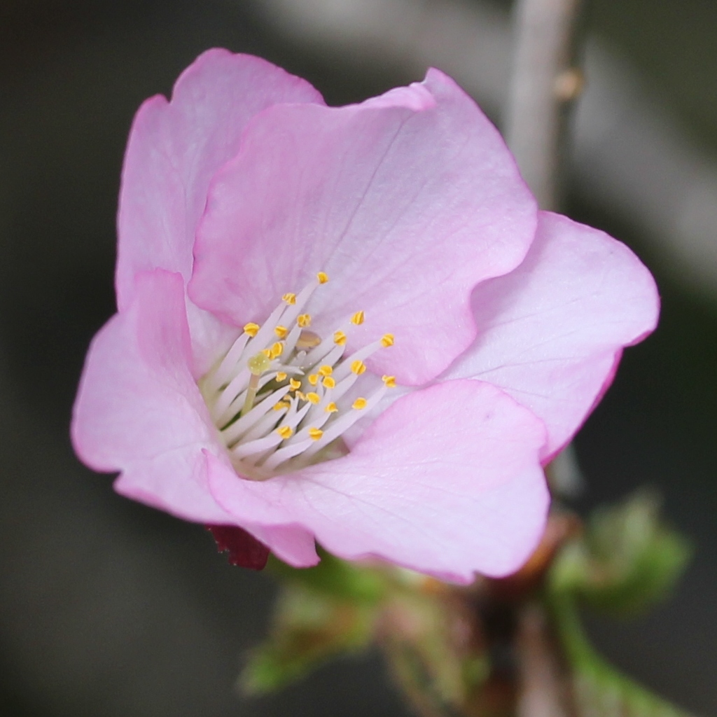 Prunus nipponica var. nipponica in Mount Chō, Hida Mountains, Azumino, Nagano prefecture, Japan.